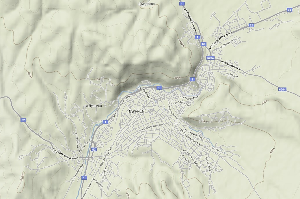 geo dupnitsa